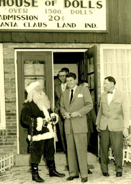 Future President of the United States Ronald Reagan visiting Santa Claus Land (now Holiday World & Splashin' Safari) in 1955. Santa Jim Yellig is to the left of Reagan, while park founder Louis Koch is to the right of Reagan.